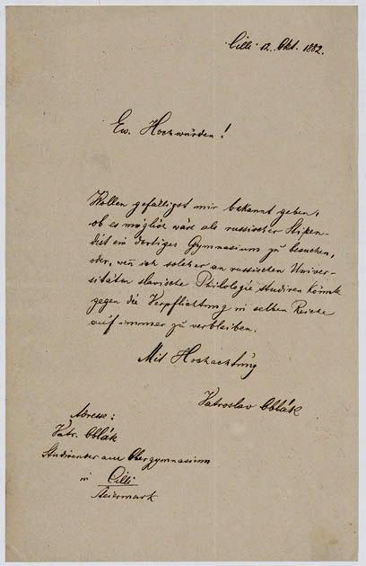 Vatroslav Oblak's Letter to Mikhail Fedorovich Raevsky 12 October 1882